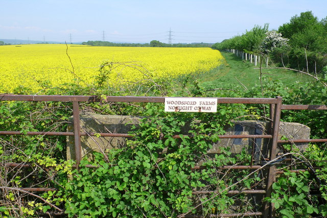 No Right of Way Many farms in this area belong to Woodsford Farms and they don't like people walking on their tracks and land as can be seen from the numerous obstacles as well as the sign on this track next to the Dorchester to Wareham railway.